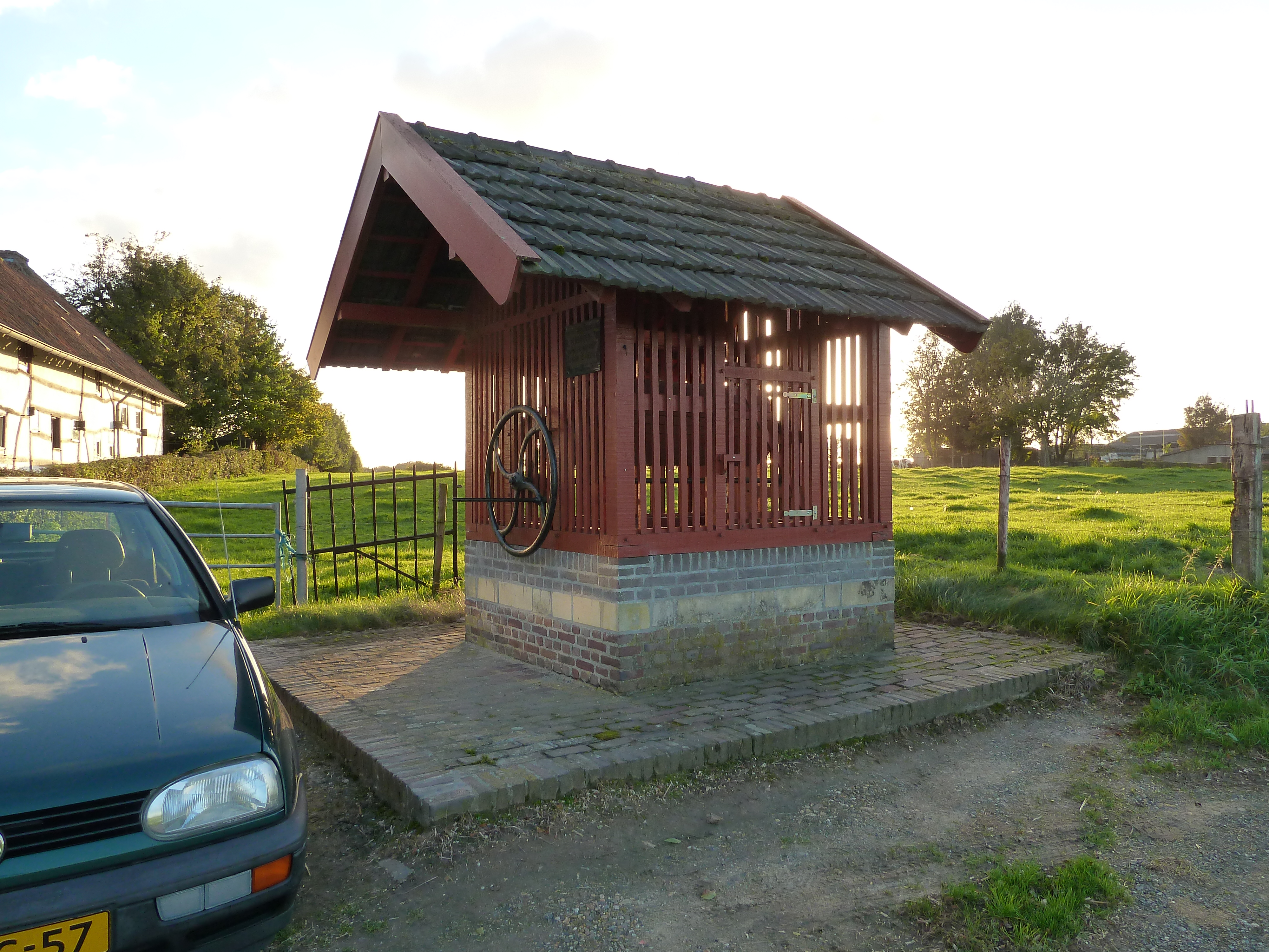 Zwingelput Klein Welsden, Margraten, Limburg, the Netherlands